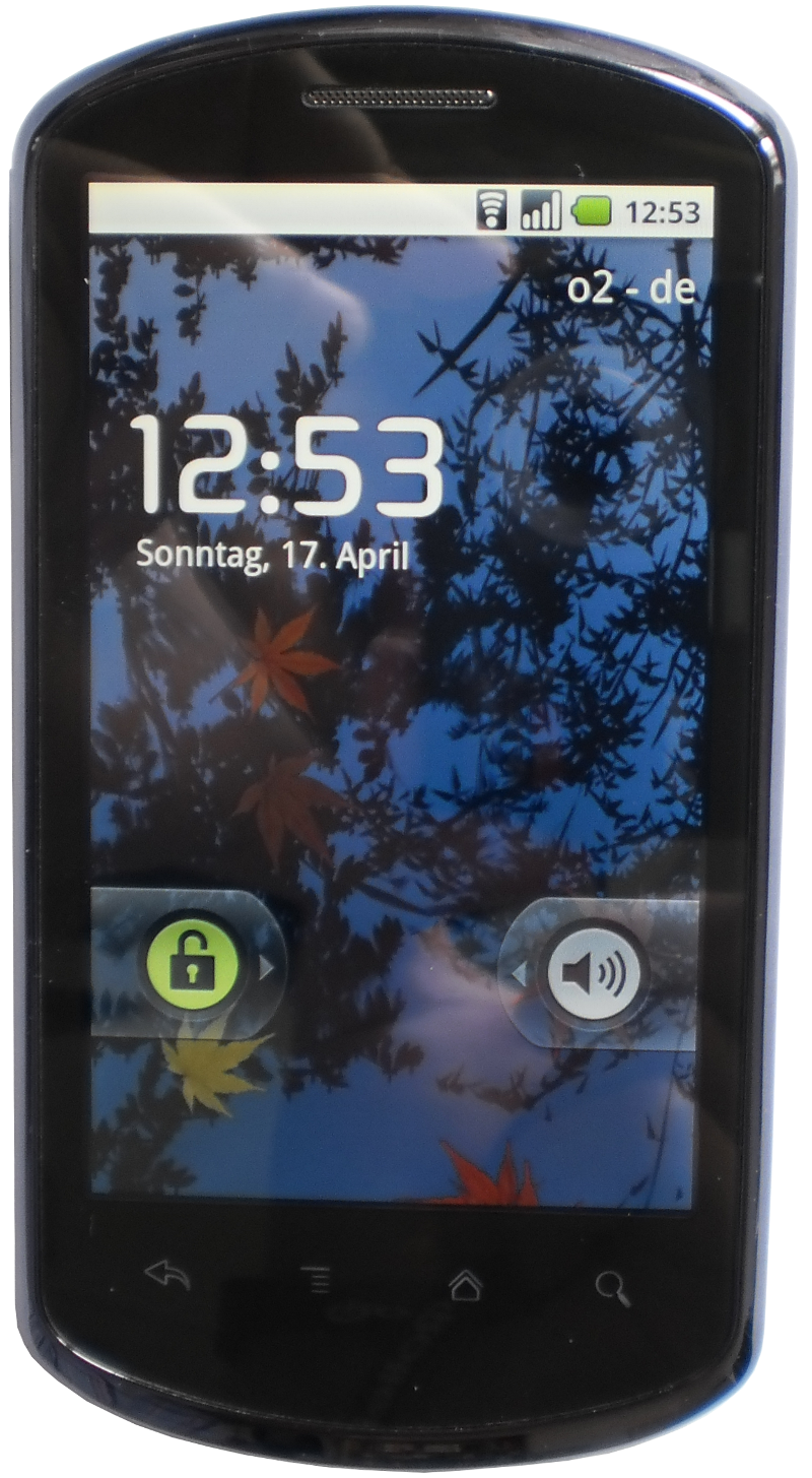 Huawei U8800 (aka Ideos X5) smartphone, front